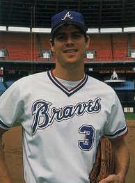 Image cropped from a baseball card of Dale Murphy from the 1984 Atlanta Braves Police Set